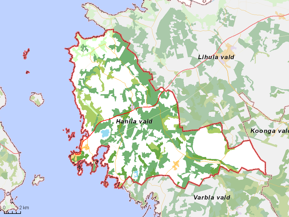 Map of municipality in Estonia